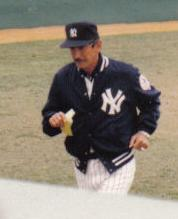 Billy Martin in New York Yankees Spring Training, 1983. Philatio (talk) 03:34, 5 May 2008 (UTC) 03:34, 5 May 2008 . . Phil5329 . . 178×219 (6 KB)